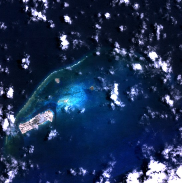 NASA NLT Landsat7 Satellite Image of Johnston Atoll, Pacific Ocean